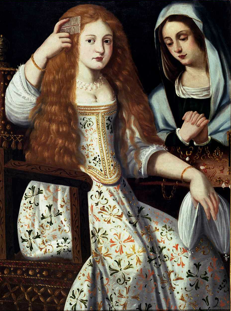 Maria La calderona